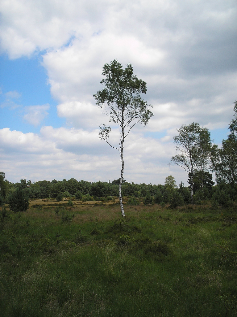 A lone white birch tree stands in the middle of a field in the Hoge Veluwe National Park in the Netherlands.